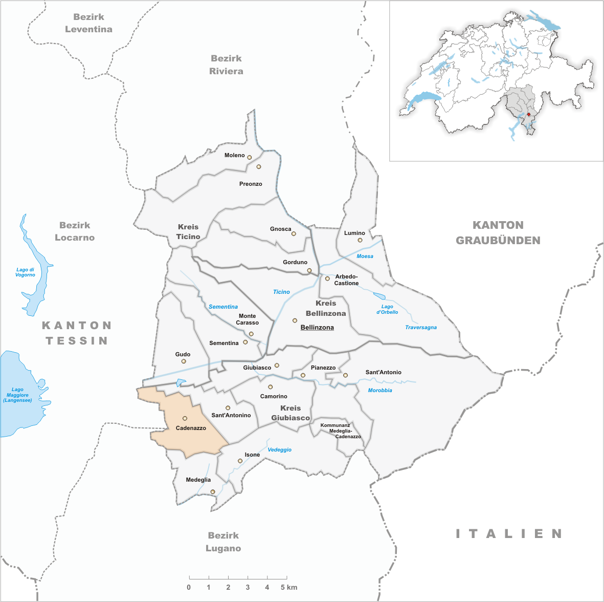 Municipality Cadenazzo